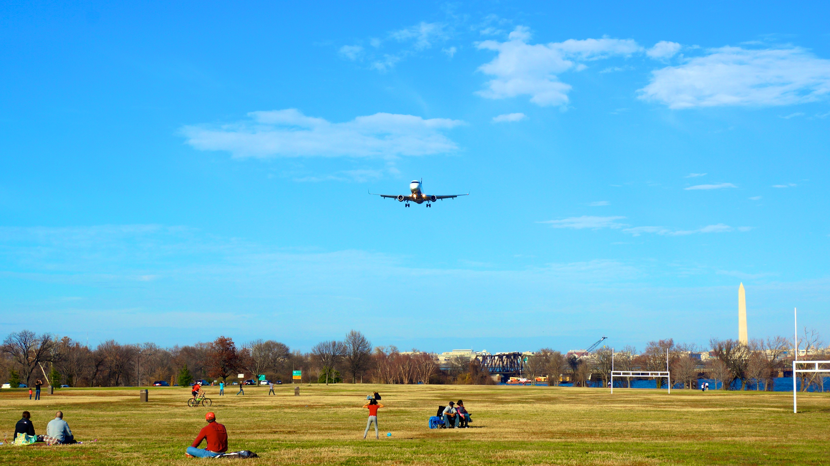 Airplane landing at Reagan National Airport, over Gravelly Point Park, Arlington, Virginia, USA